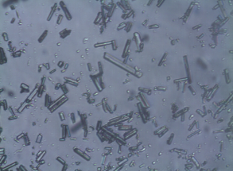 Methylenedioxypyrovalerone hydrochloride crystals at 400X magnification